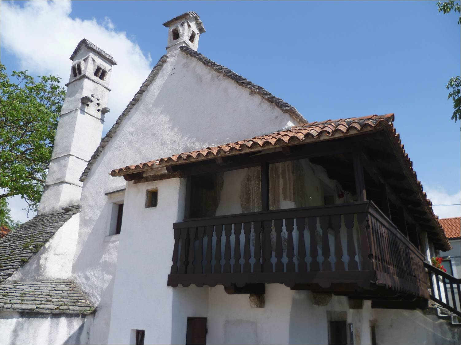 Rural architecture of Slovenia. Škrateljnova hiša (the Škratelj family house), 17th century.